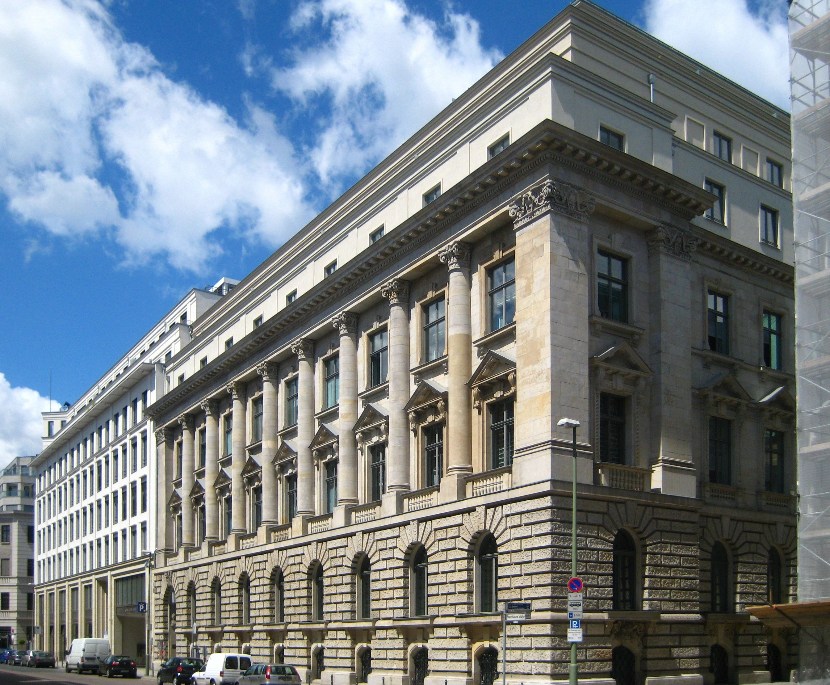 Former building of Dresdner Bank in Berlin-Mitte, here the facade at Französische Straße; the building is now seat of the Hotel de Rome Berlin; the top story was added as late as 2004-2006 when the building underwent an extensive reconstruction